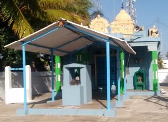 Thanjavurkothandaramartemple தஞ்சாவூர்கோதண்டராமர்கோயில்